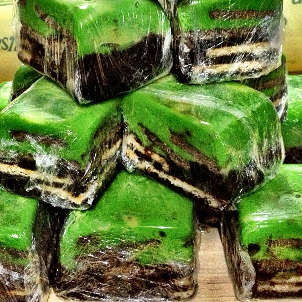 Made Kek Batik for the first time and they turned out so lovely! Chompy, dough-y, rich with bites of crunchy biscuit. Had fun cutting them into blocks to make this Batik Mountain. Heeeee!